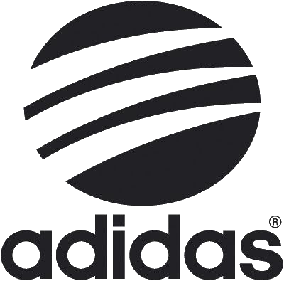 Logo of Adidas Sport Style